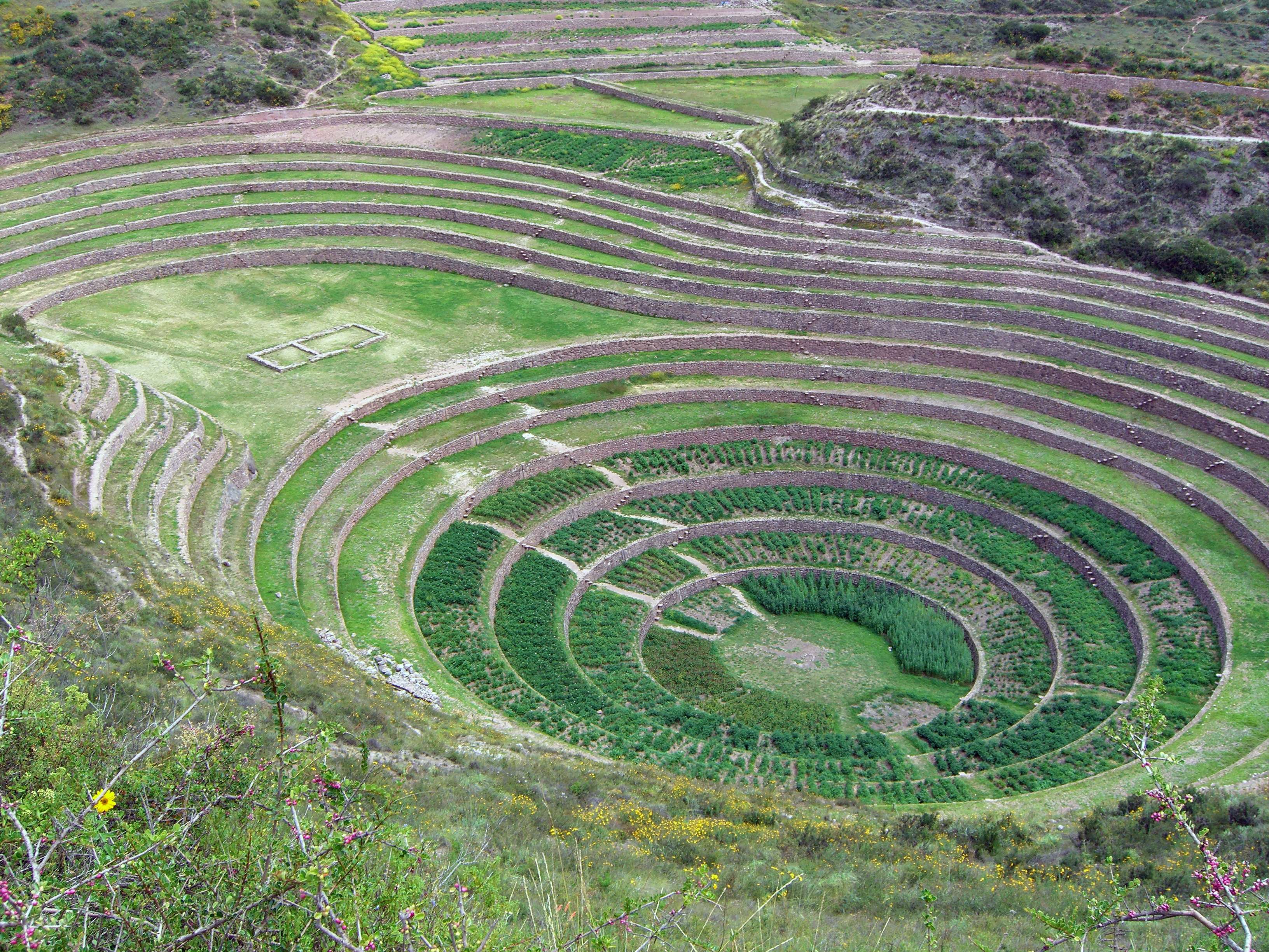 Description: Doline Qechuyoq in Moray_(Inca_ruin)